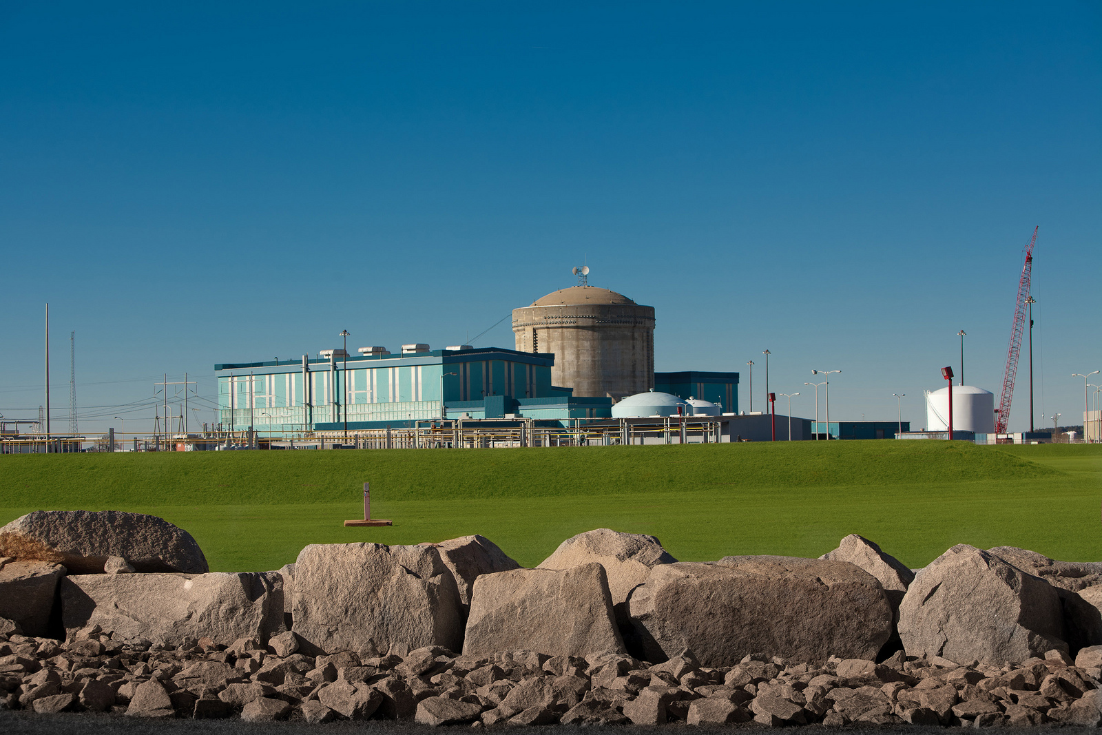 This is a publicity photograph from SCE&G showing V. C. Summer Nuclear Station Unit 1. This photo shows the Reactor Building, which is the concrete cylindrical structure, Turbine Building, which is the large blue building, and the Switchyard, where the electricity is sent from the Nuclear Plant to the grid.